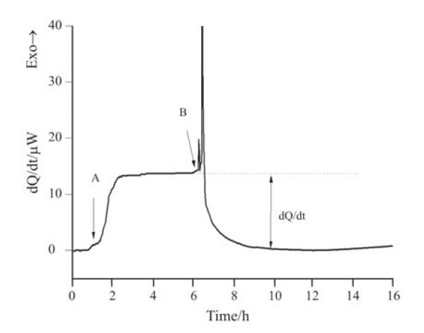 The fibroblast suspension was in a stirred IMC ampoule maintained at 37C. The IMC heat flow curve shows the heat flow from the living fibroblasts, a heat flow spike due to injection of SDS and a return of heat flow to baseline (zero) do to lysis of the fibroblasts by SDS.